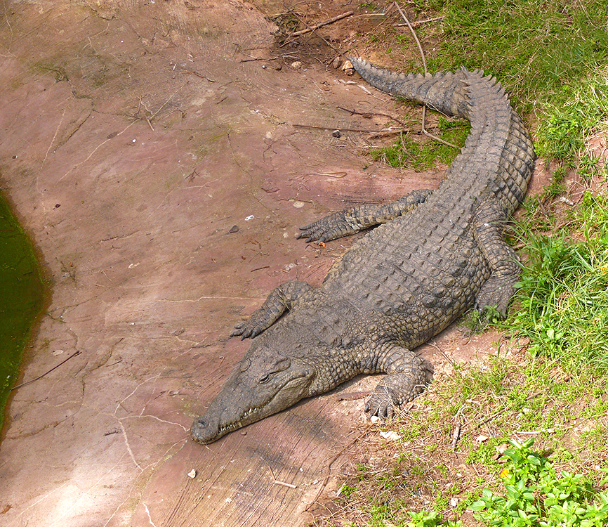 Nile Crocodile, Zoological Center Tel Aviv - Ramat Gan, Israel